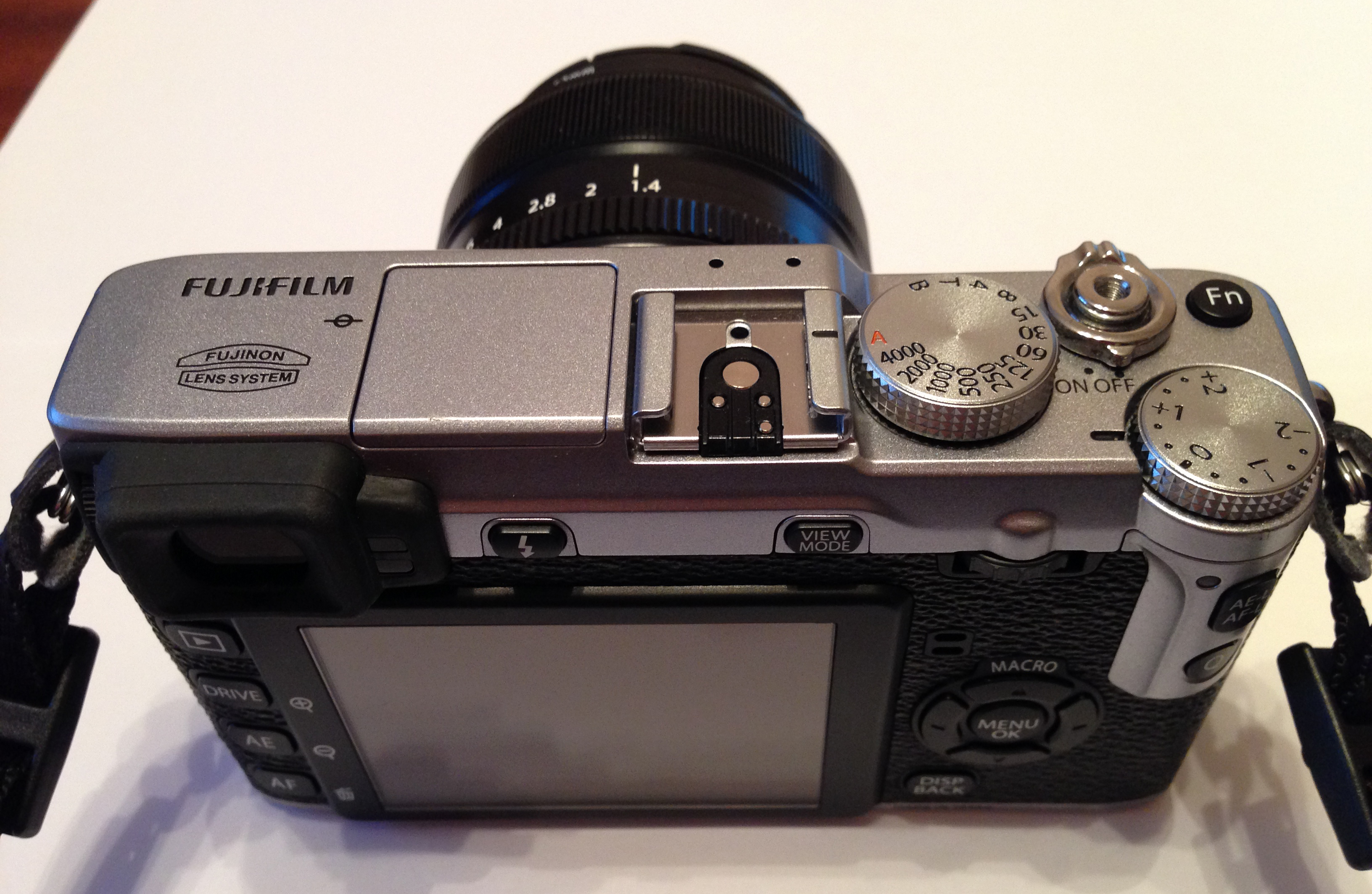 Fujifilm X-E1 camera